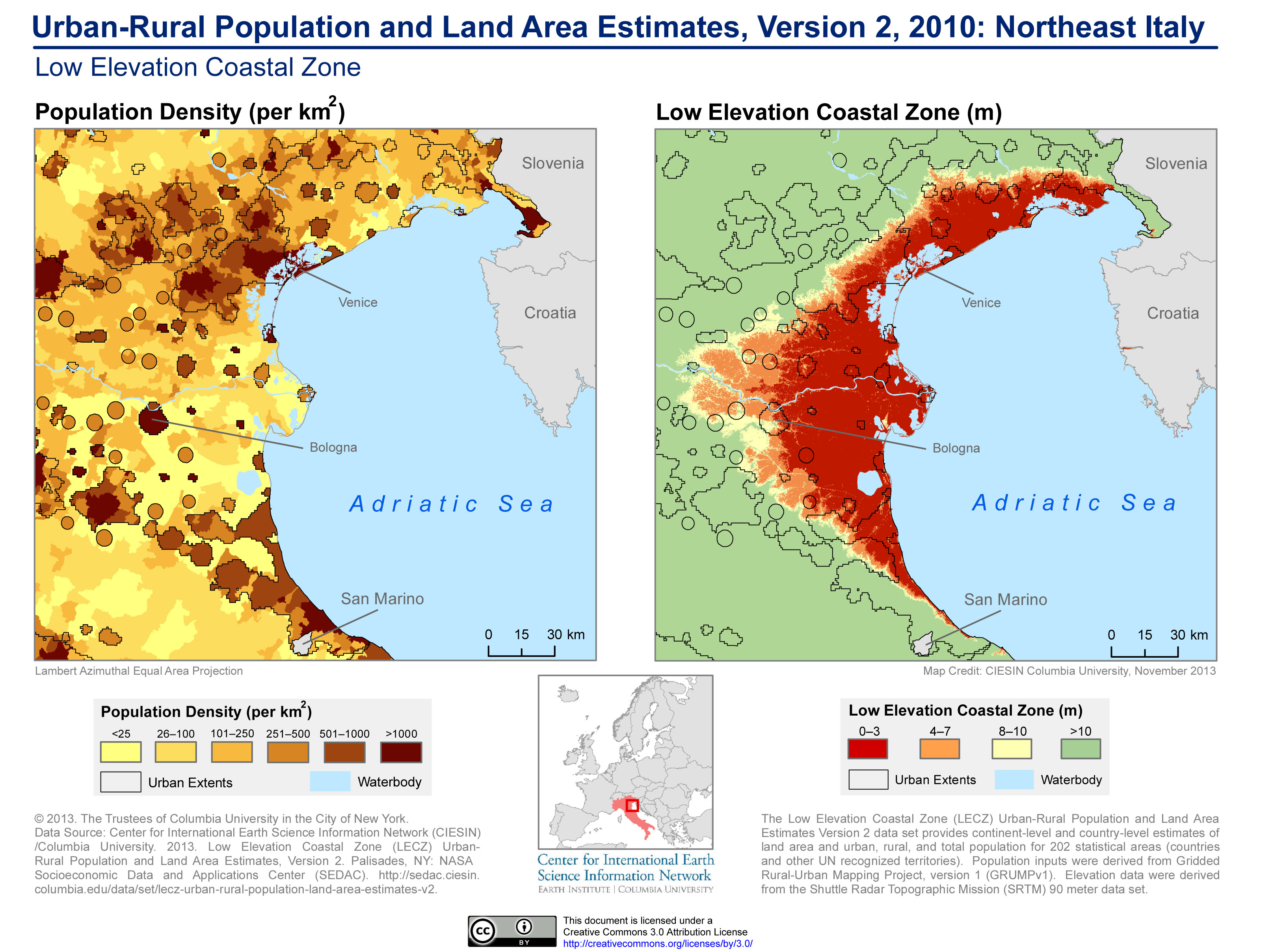 The Low Elevation Coastal Zone (LECZ) Urban-Rural Population and Land Area Estimates Version 2 dataset provides continent-level and country-level estimates of land area and urban, rural, and total population for 202 statistical areas (countries and other UN recognized territories). Population inputs were derived from Gridded Rural-Urban Mapping Project, Version 1 (GRUMPv1). Elevation data were derived from the Shuttle Radar Topographic Mission (SRTM) 90 meter dataset.